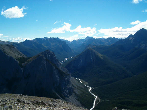 Erik Lizee